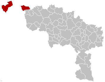 Map of Mouscron District in province of Hainaut, Belgium.